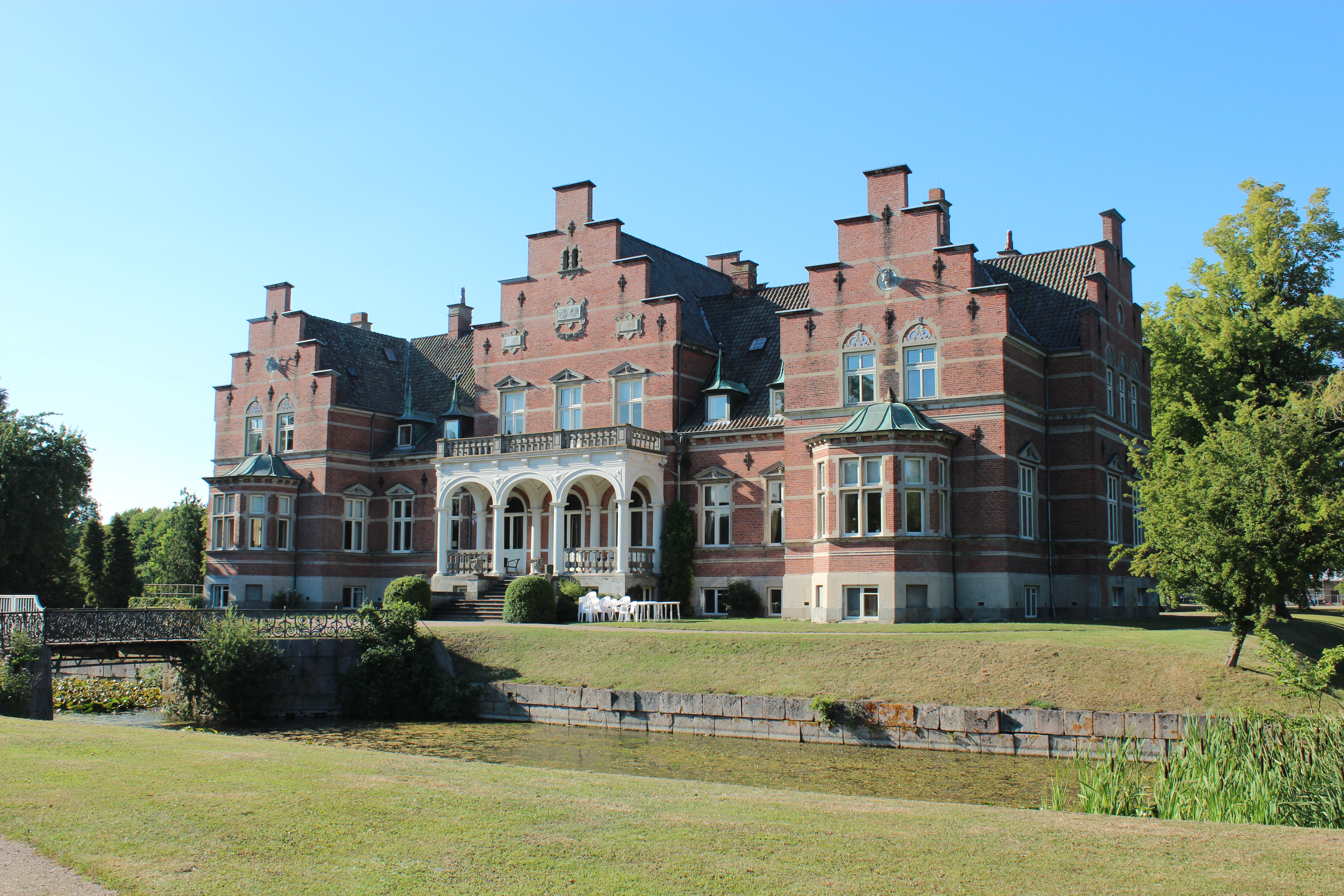 The back of Fuglsang Slot (Fuglsang Castle)